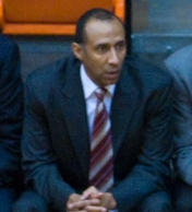 Stanford head coach Johnny Dawkins during Stanford's Feb. 20, 2010 game @ Oregon State.